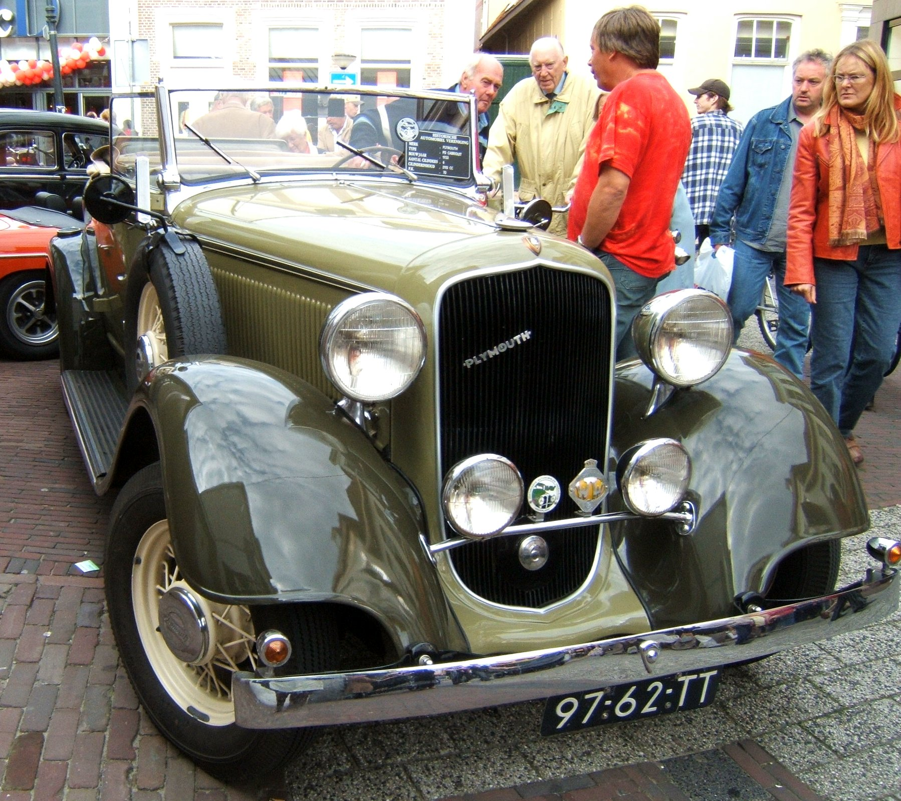 Categorie:Afbeelding auto 1932 Plymouth New Finer Model PB